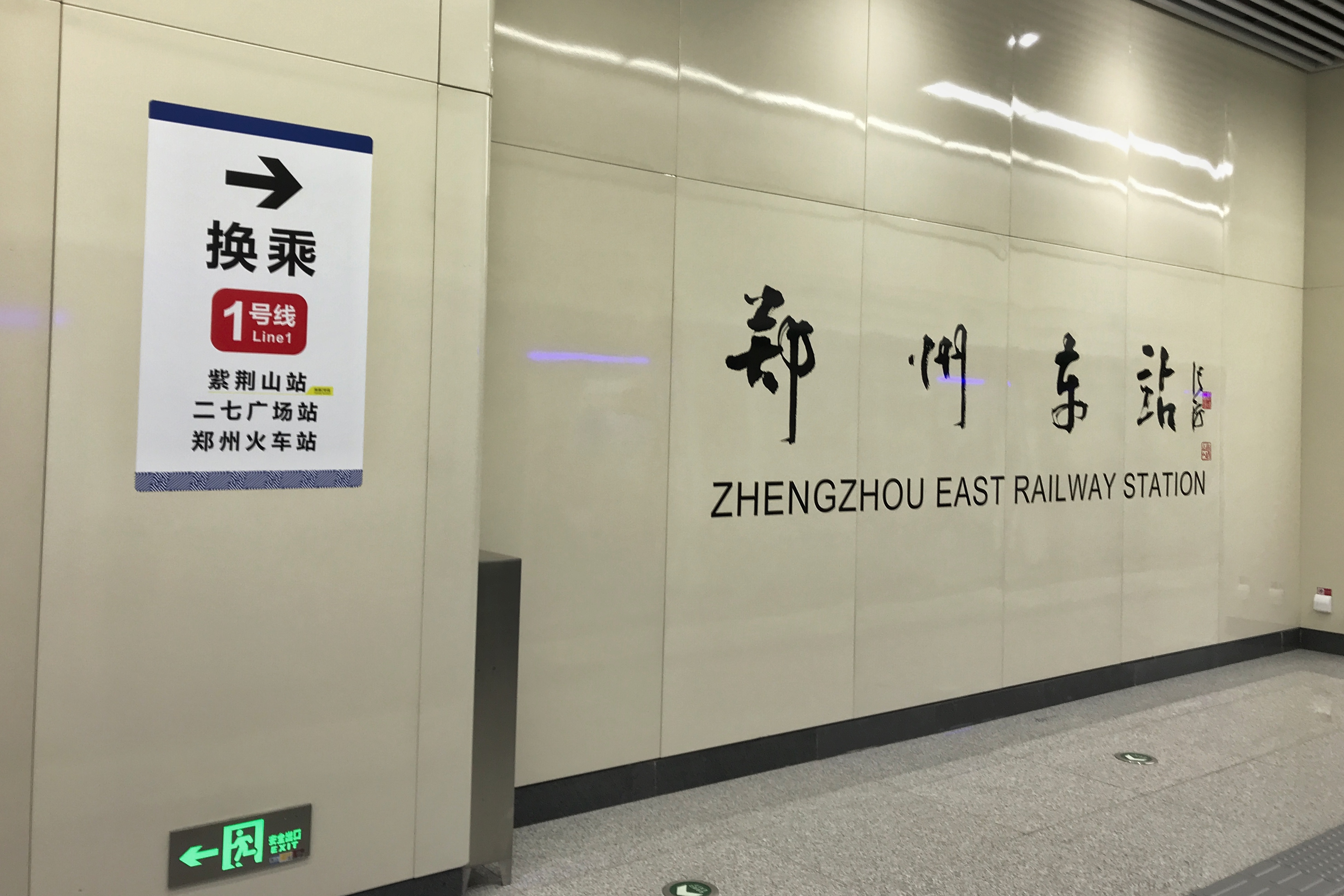 The calligraphy station name at Zhengzhou East Railway Station (Metro)